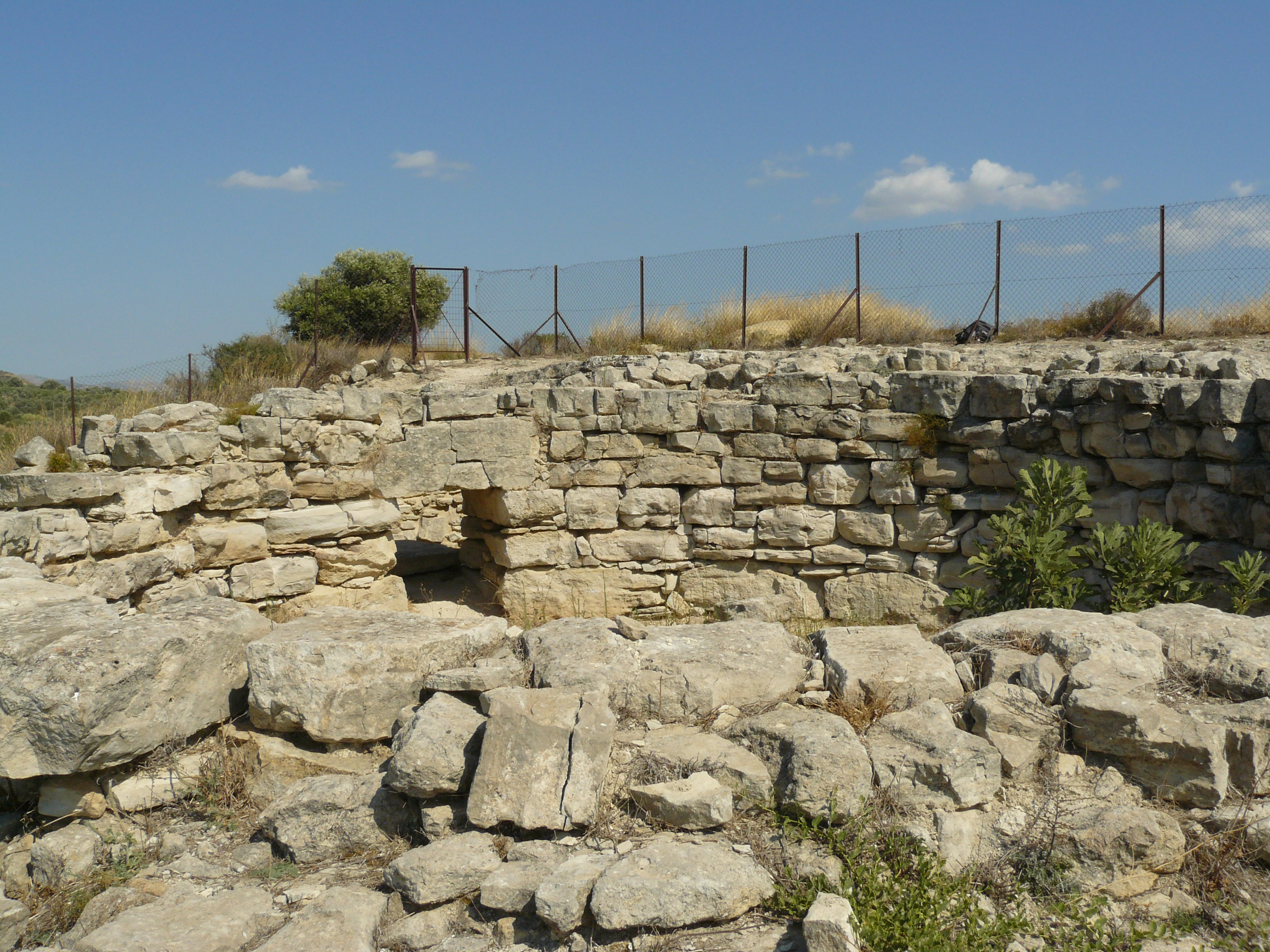 Tholos tomb near Kamilari, Crete.